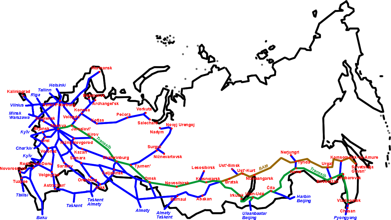 Russia's most important railway lines